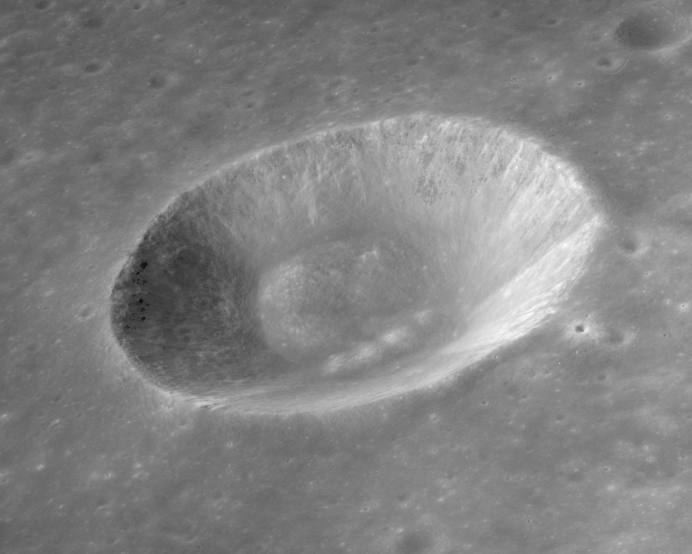 Oblique view of Gardner crater, on the moon, facing south.